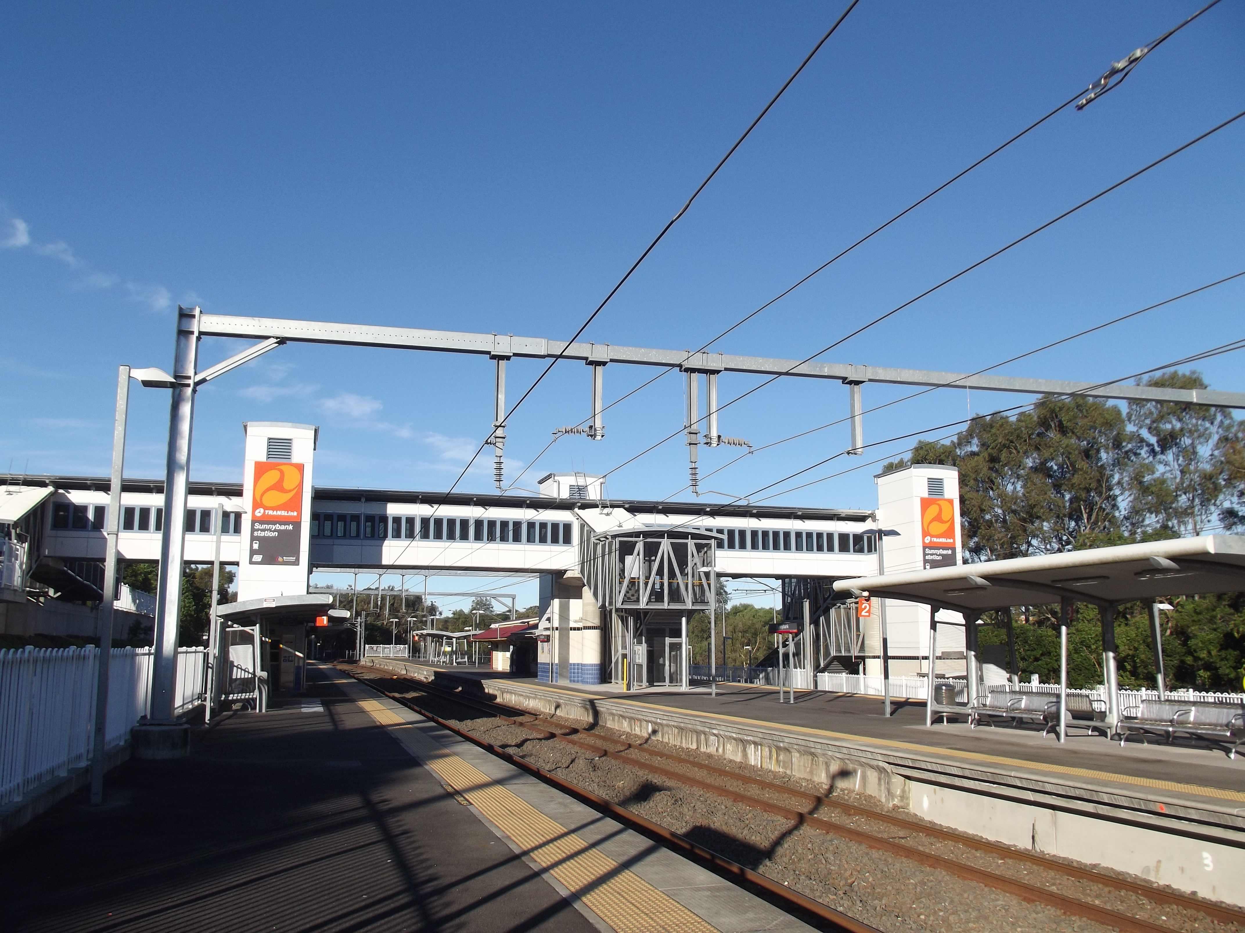 A photo of the Sunnybank railway station, operated by TransLink, located in Brisbane, Queensland.